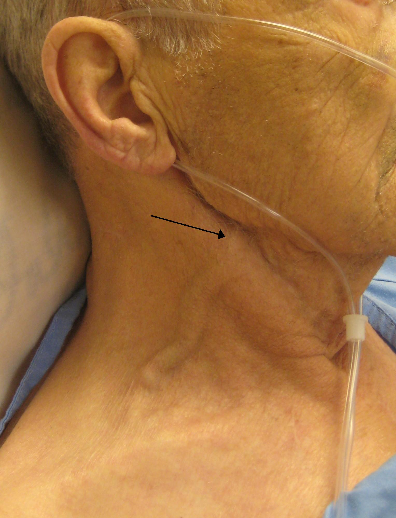 A person with congestive heart failure who presented with an exceedingly elevated JVP, the arrow is pointing to the external jugular vein (marked by the arrow) however, JVD is measured by the internal jugular vein which can also be seen here